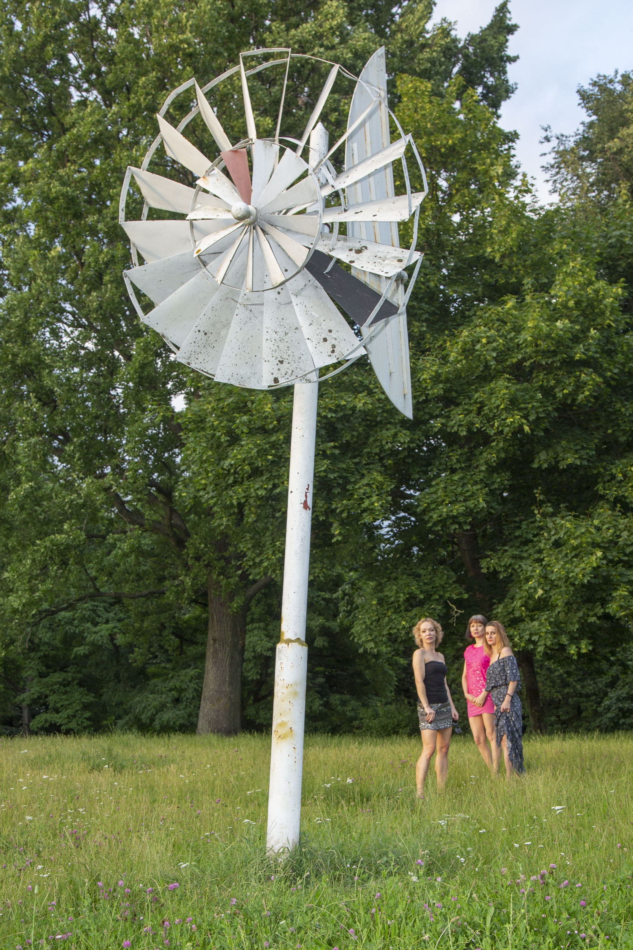 Kinetic form (7 meters high), created by Jan Chwałczyk (collaborators: J. Liberski, S. Witkowski) during the 1st Biennial of Spatial Forms in Elbląg (1965). Located on the ‘Anna’ hill in the R. Traugutt Park in Elbląg. Once a windmill was moved by the force of the wind. In the background, visual artists: Agata Zbylut and Iwona Demko with curator Karina Dzieweczyńska, while working on the project entitled "Congress of dreamers / Kongres Marzycielek” carried out at the Art Center Gallery EL.